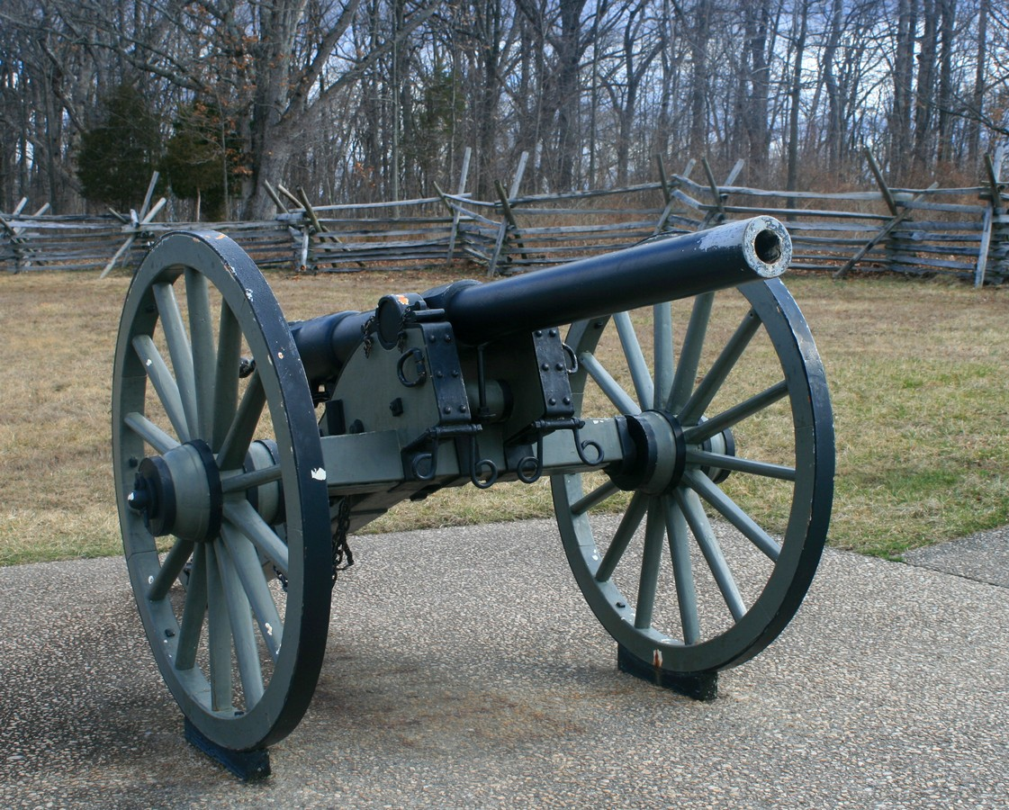 Gettysburg, Oak-Hill, Whitworth Breechloading Rifle. (Hurt's battery)